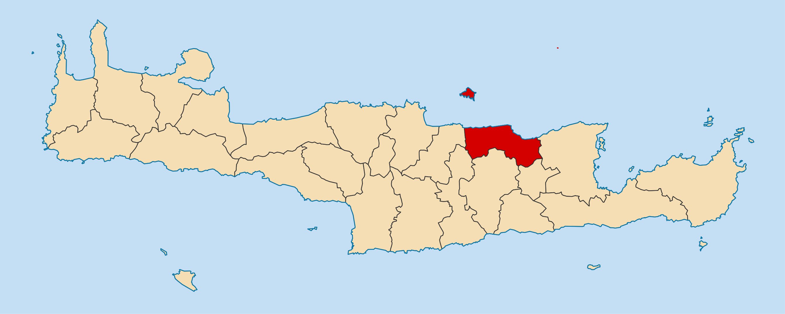 Locator map for Chersonisos municipality in Greek region Crete (2011)